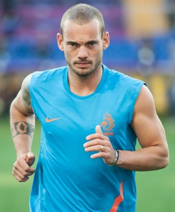 Wesley Sneijder training with Netherlands national team at the Euro 2012